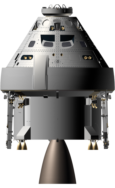 Side-view illustration of NASA's Orion crew module and its associated service module. This is a revised design from around May 2009.